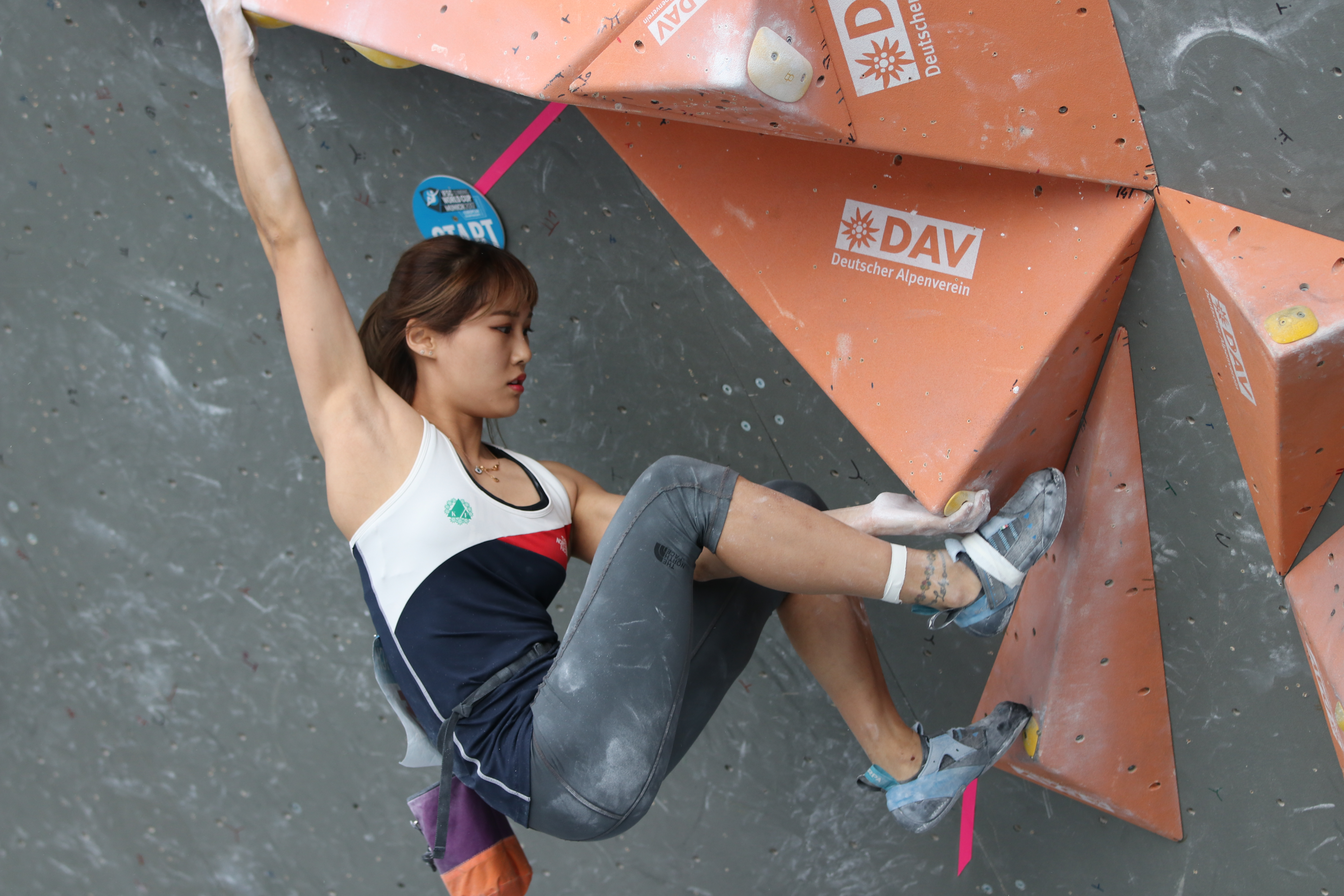 Sol Sa KOR at the Boulder Worldcup 2017 in Munich, Germany